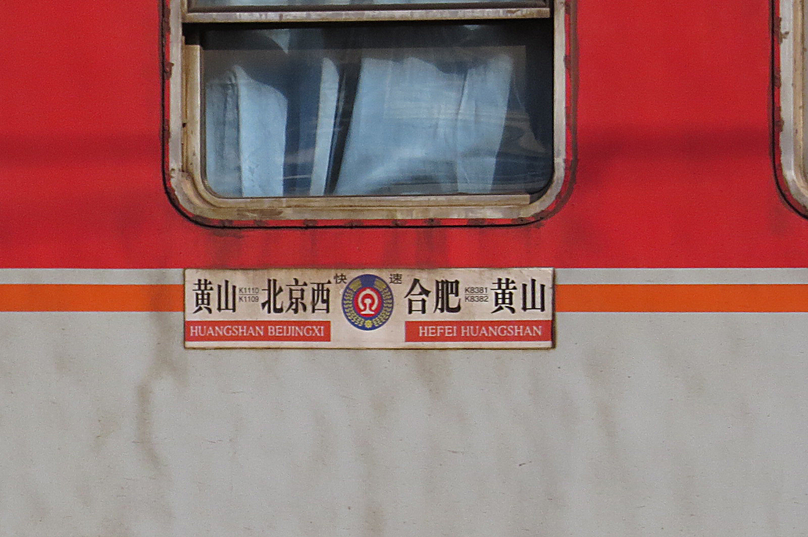 Beijing West to Huangshan (and return to Hefei as K8382).